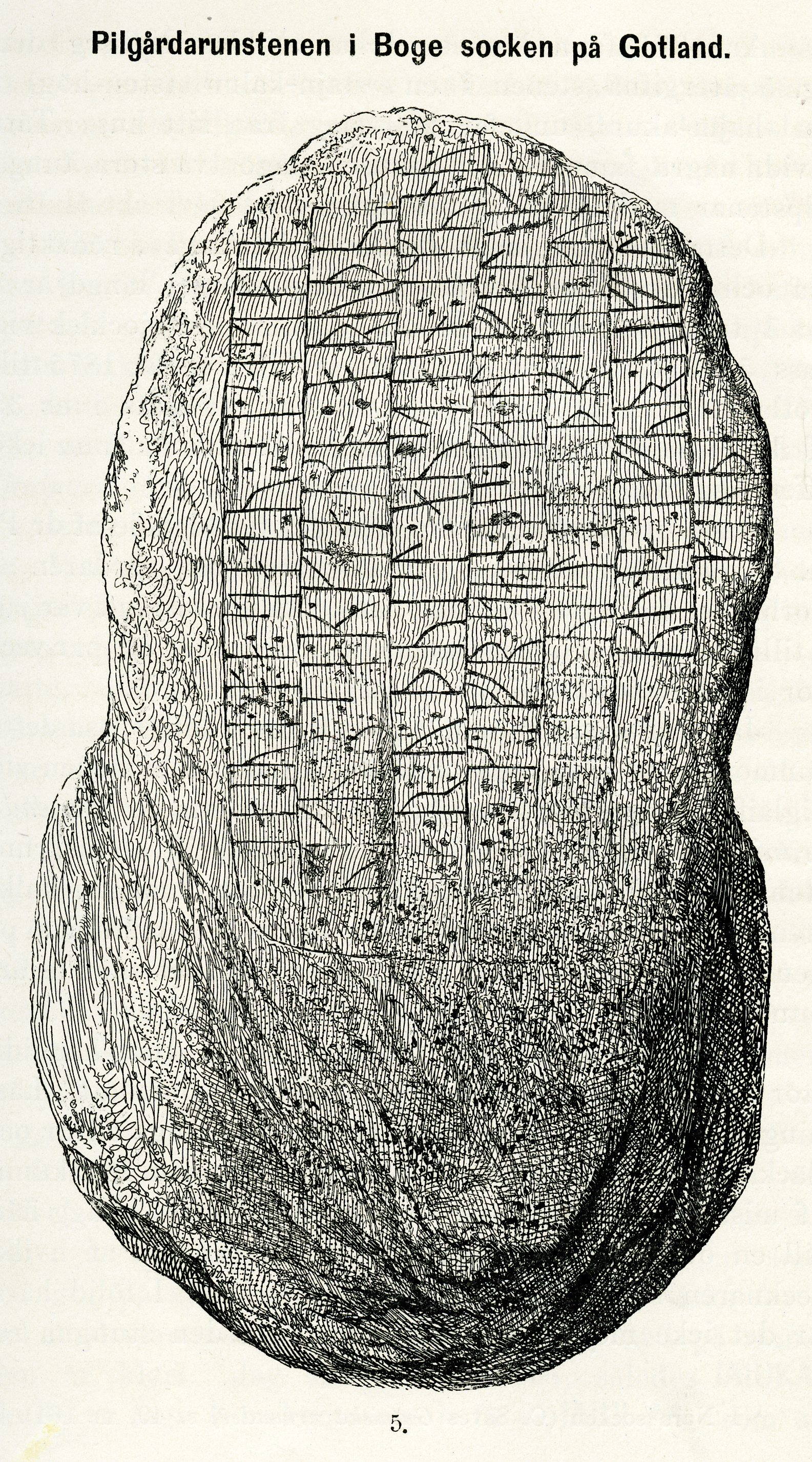 The Pilgårda runestone in Boge parish, Gotland, Sweden.